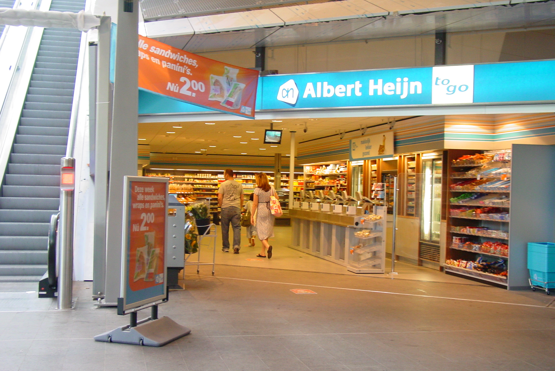 Albert Heijn shop at Amsterdam Bijlmer ArenA station